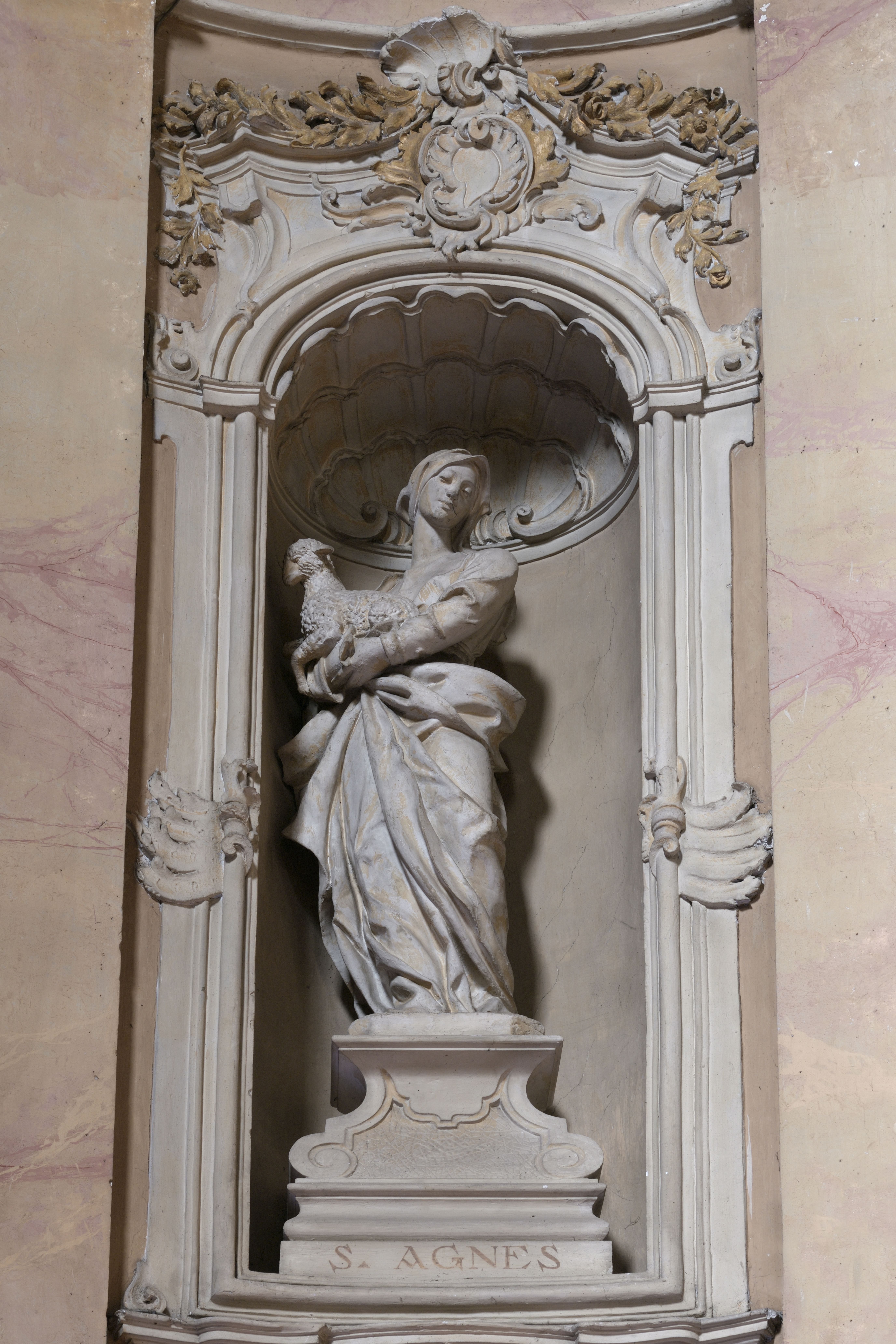 Statue of Saint Agnes by the Calegari sculptors in the parish church of San Felice del Benaco on lake Garda.